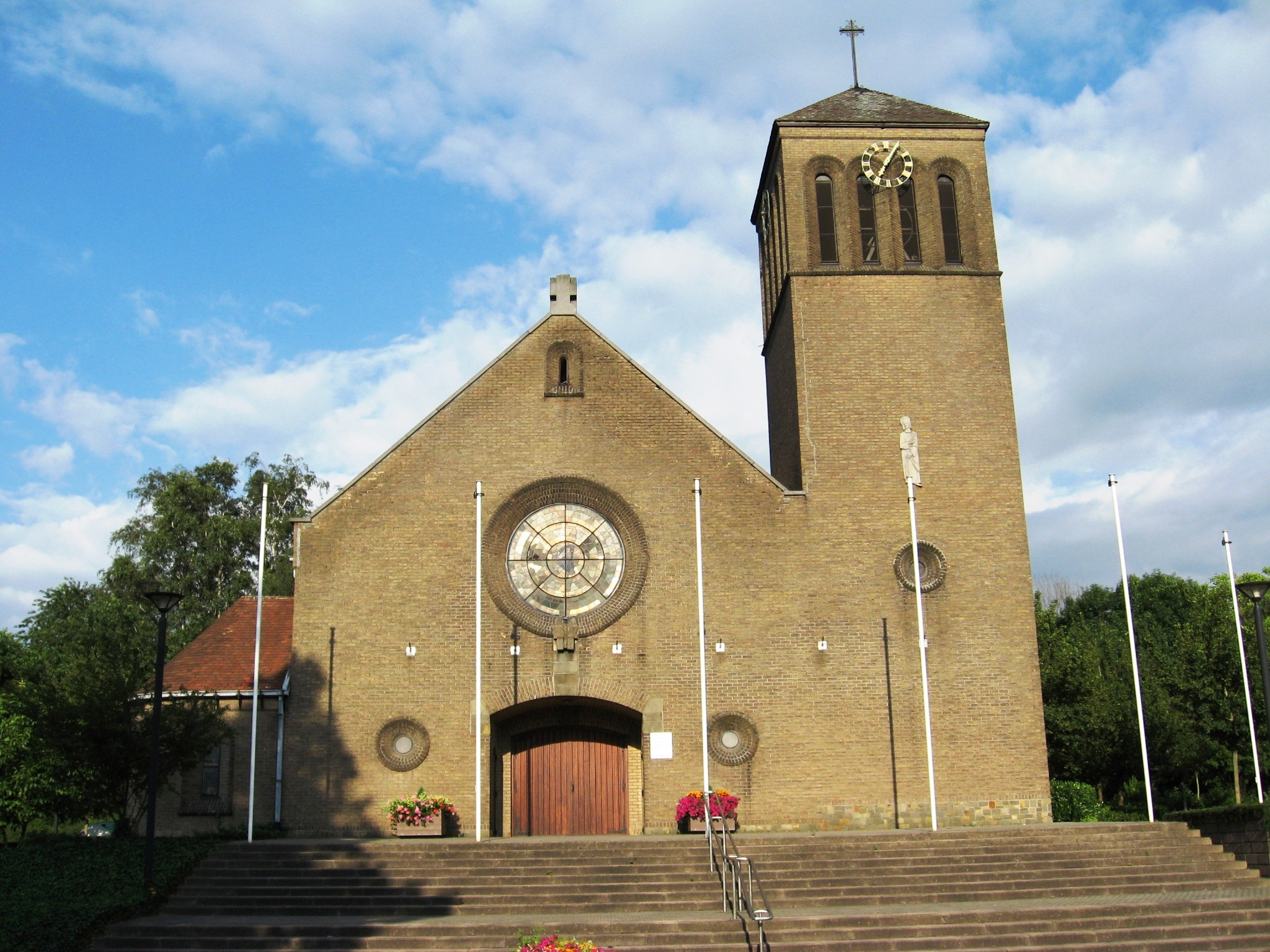 Church of Saint Joseph in Genk (Sledderlo), Limburg, Belgium